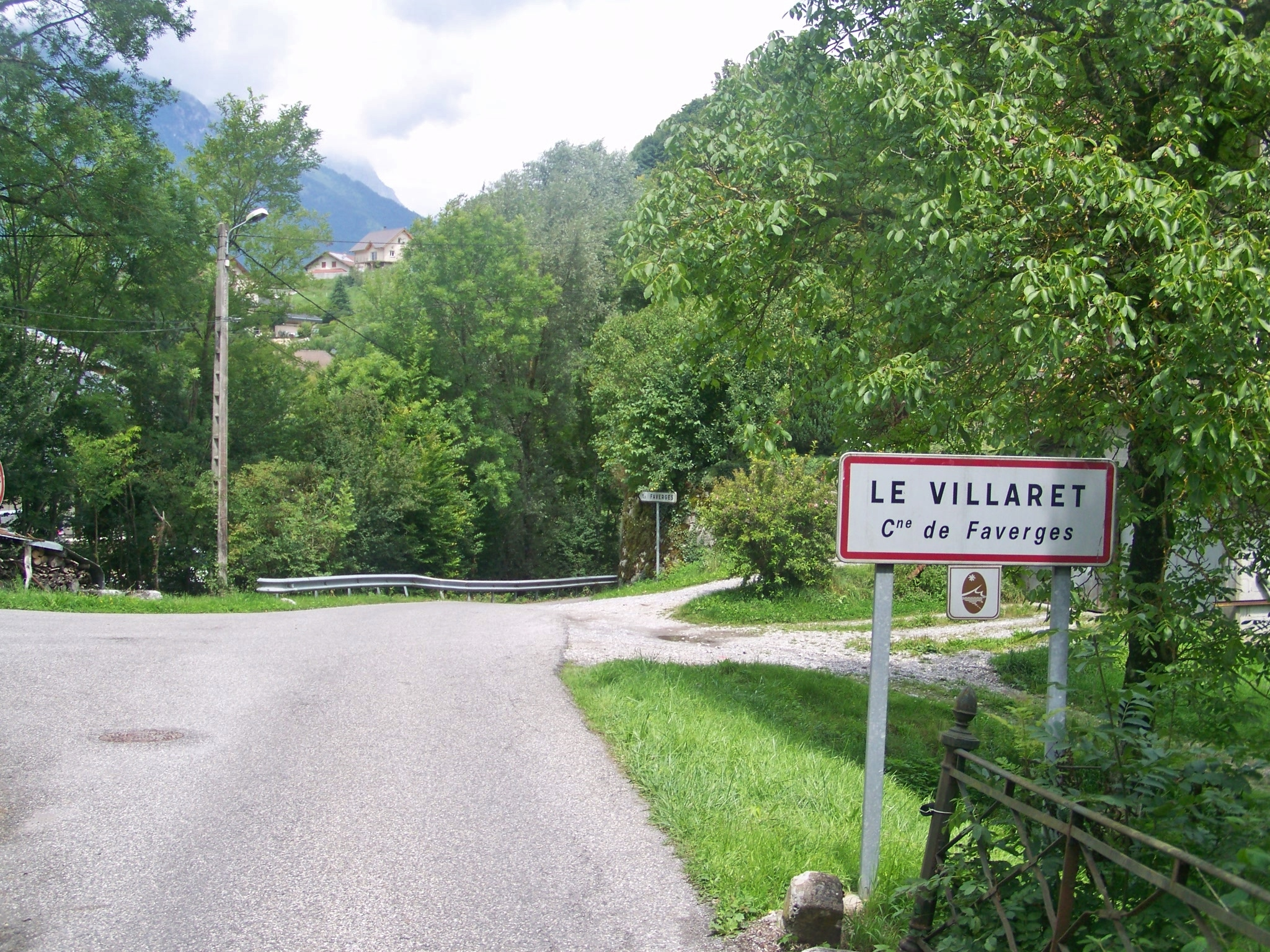 Entering roadsign of the hamlet Le Villaret, on the French commune of Faverges, in Haute-Savoie.